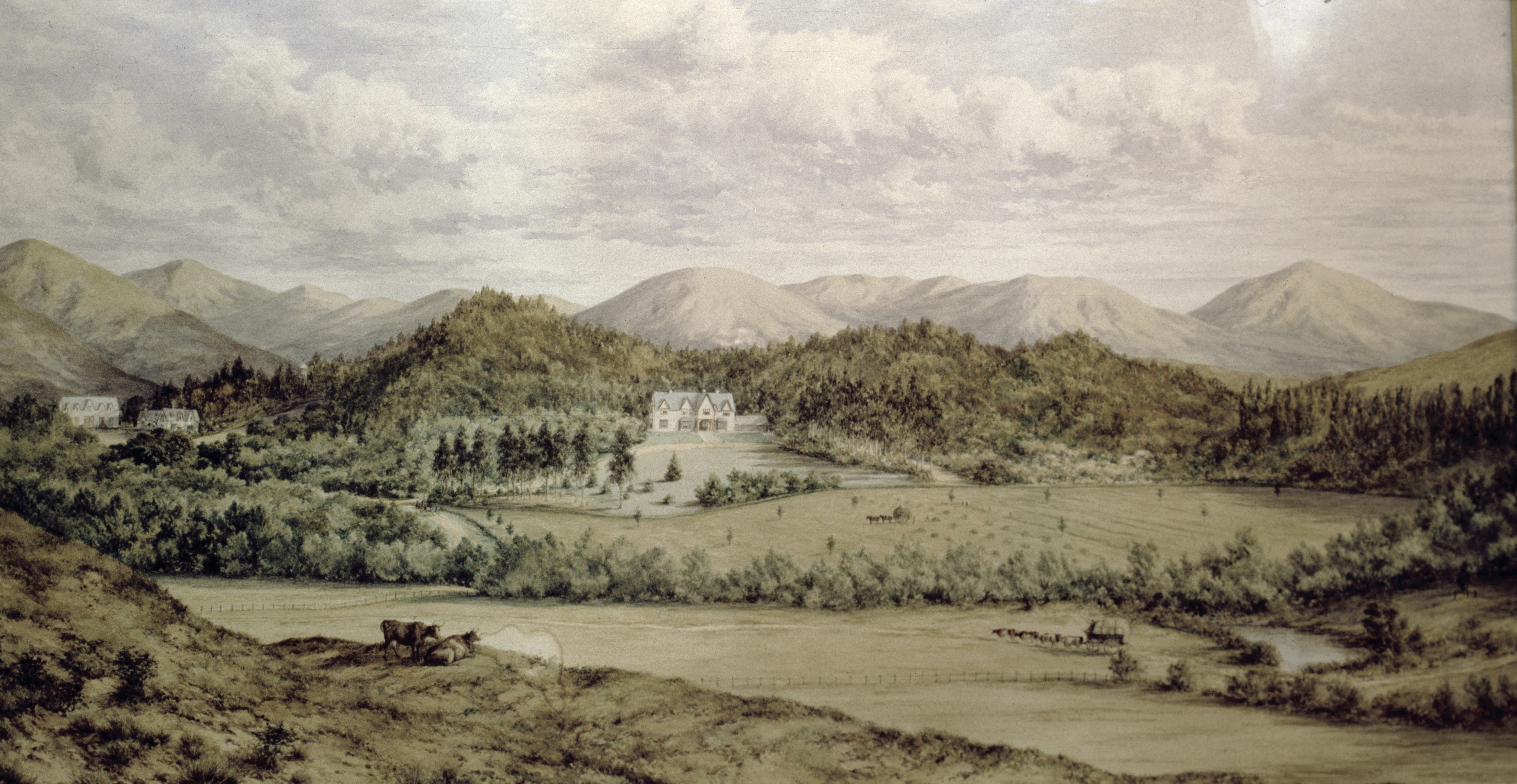 Photograph of pencil & watercolour, size of original 210 x 340 mm.; Single art work. The two-storied, four-gabled house of William ('Ready Money) Robinson, in the middle distance, on a low rise, surrounded by fenced paddocks and trees with higher hills behind. To the left amongst trees are two slightly smaller houses. Cows rest on a low hill in the left foreground and a haywain is being drawn by a team of bullocks to the right.